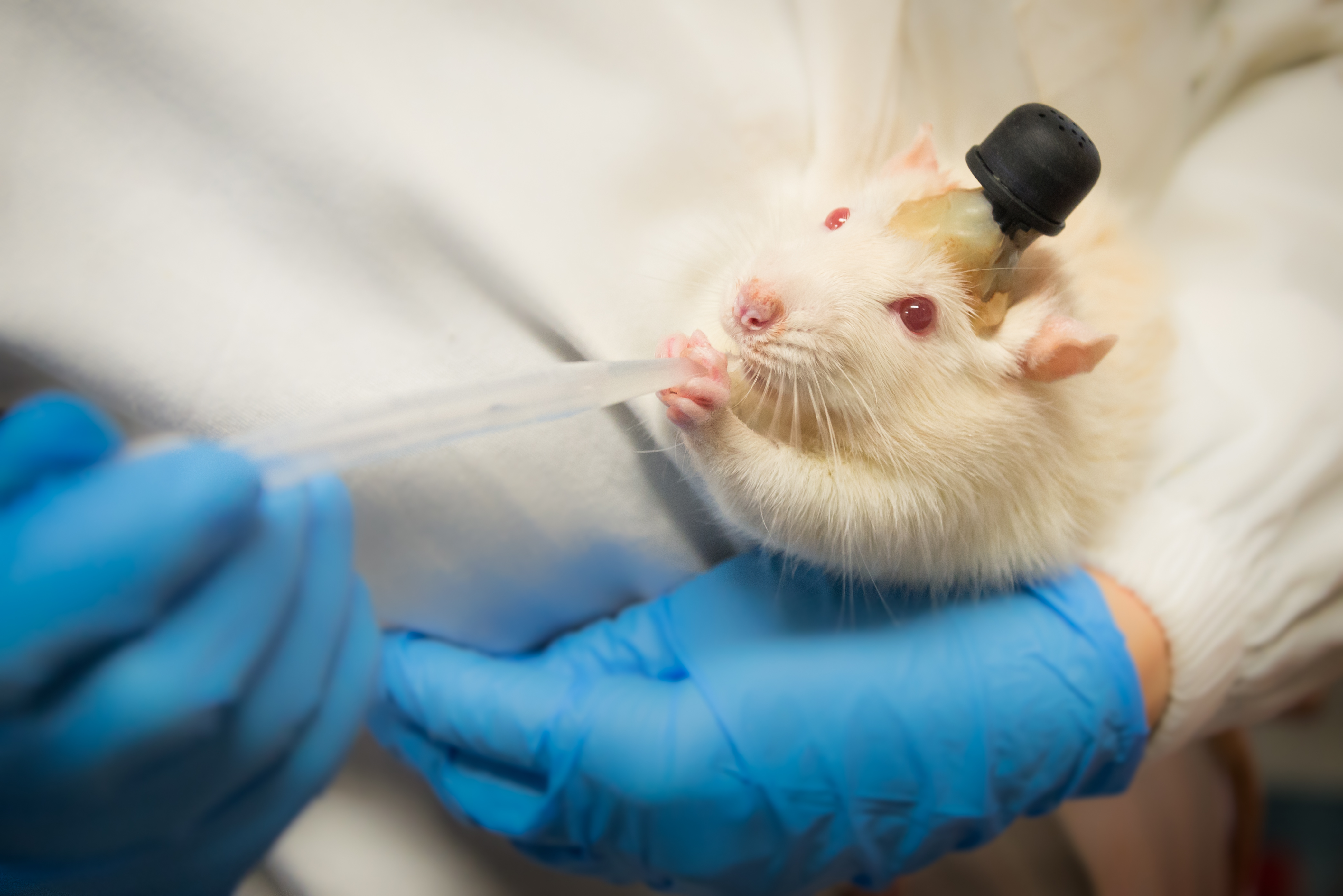 This is a laboratory rat with a brain implant, that was used to record in vivo neuronal activity during a particular task (discrimination of different vibrations). On this picture scientist feeds the rat apple juice through a pipette.